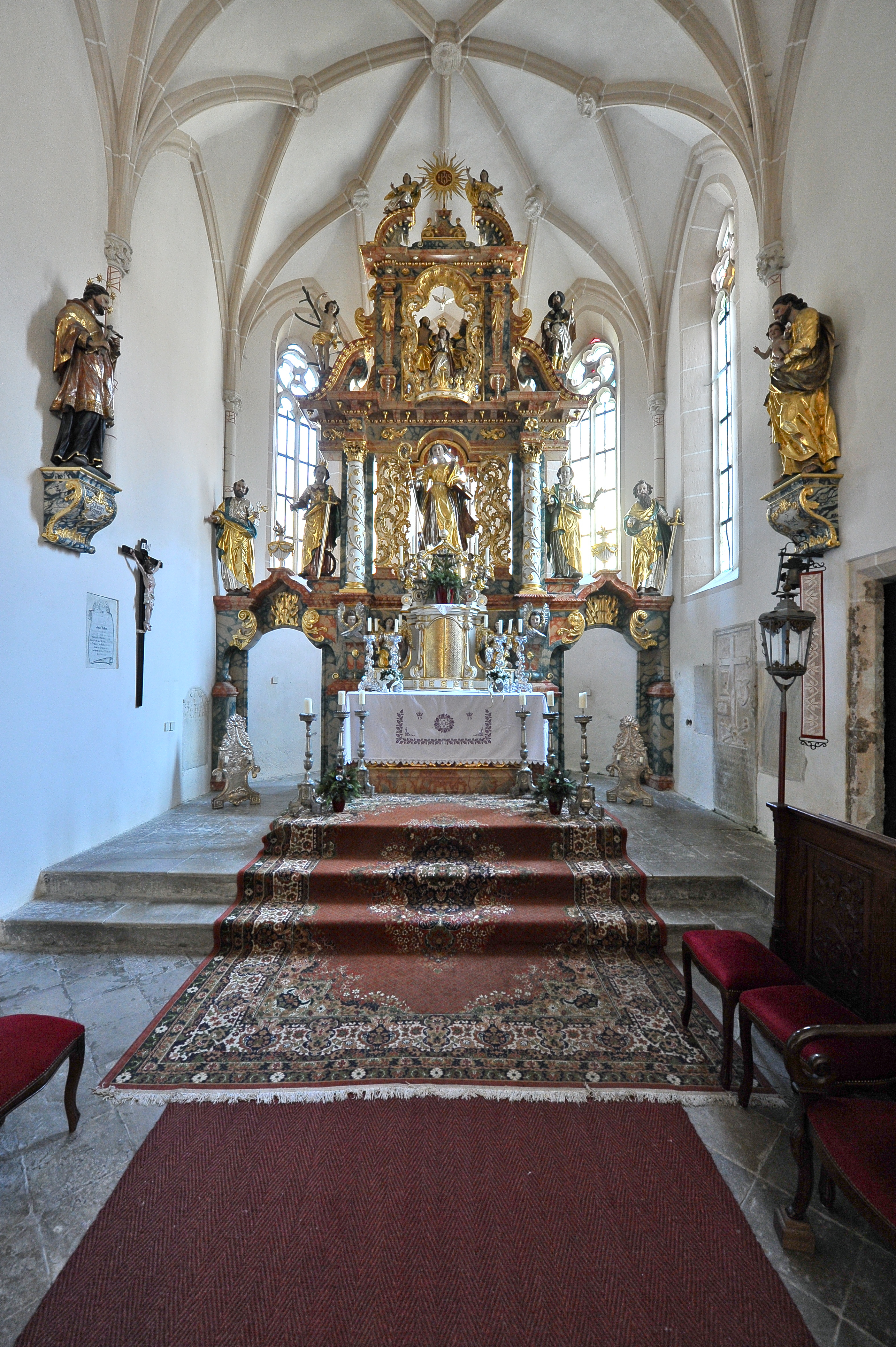 Gothic choir with the baroque high altar of the parish church Saint Walpurga at Sankt Walburgen, municipality Eberstein (Kärnten), district Saint Veit on the Glan, Carinthia / Austria / EU